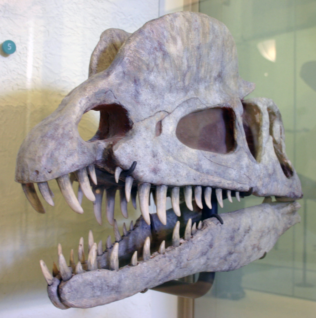 double-crested reptile in the American Natural History Museum Visit my blog at